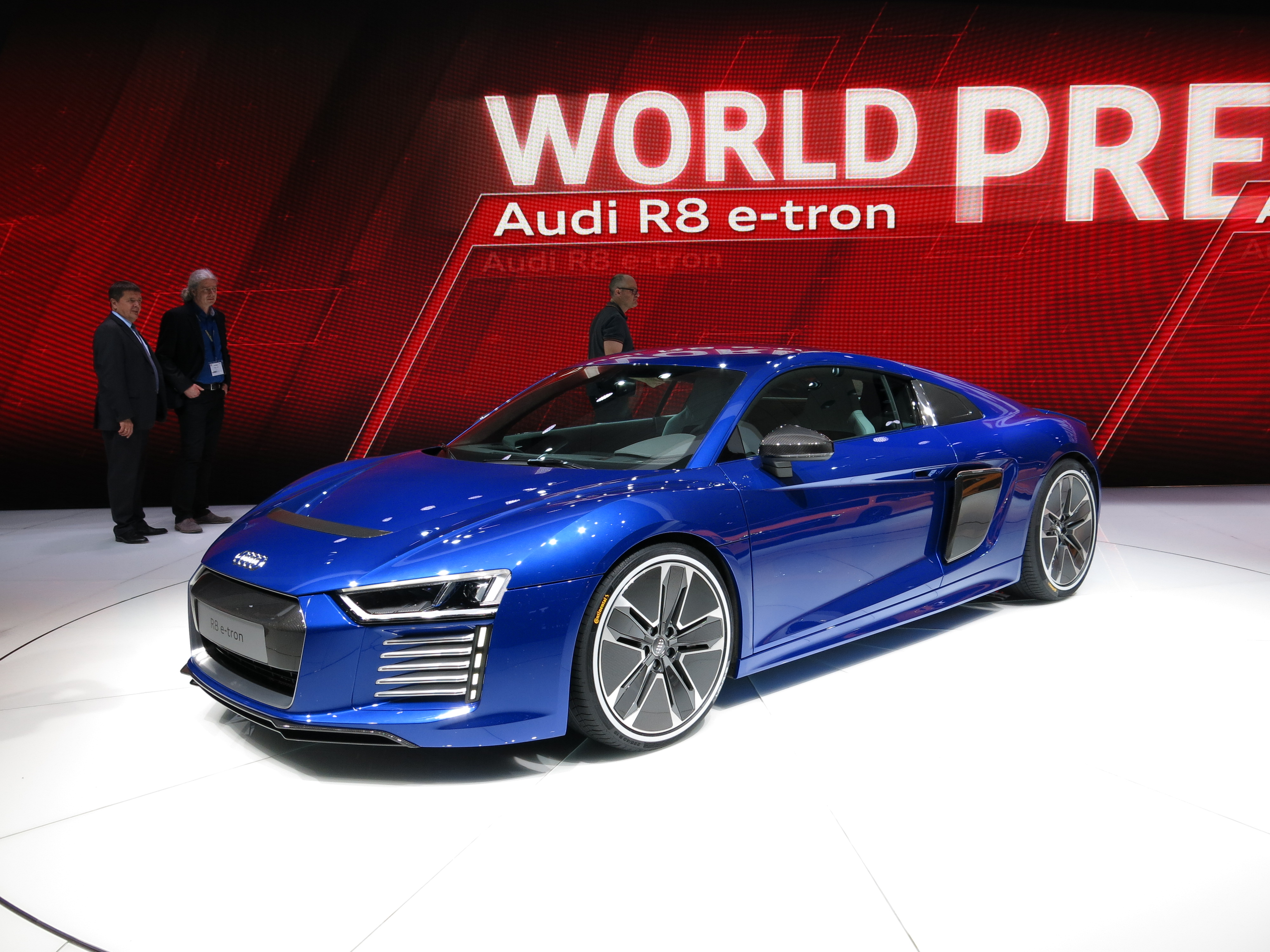 Geneva Motor Show 2015 (photo taken on the first press day)